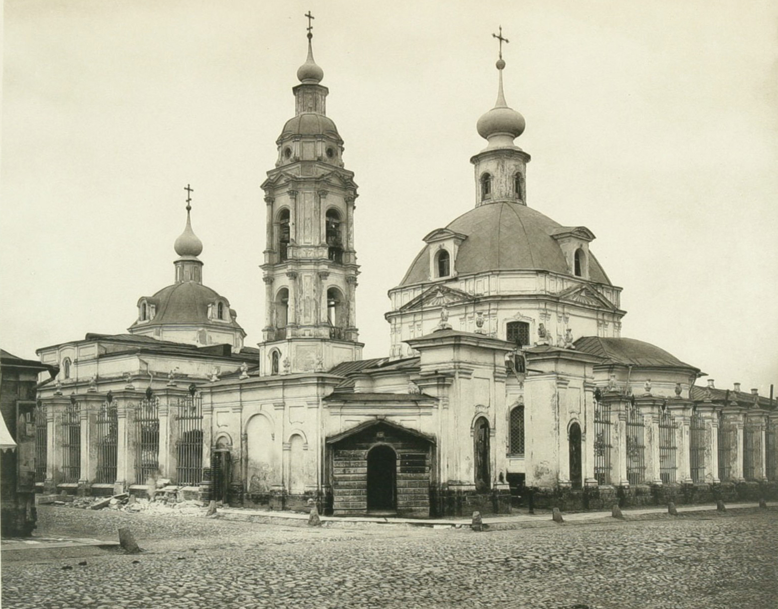 Church of St.Catherine, Moscow, 60-2 Bolshaya Ordynka Street (1883 photo)